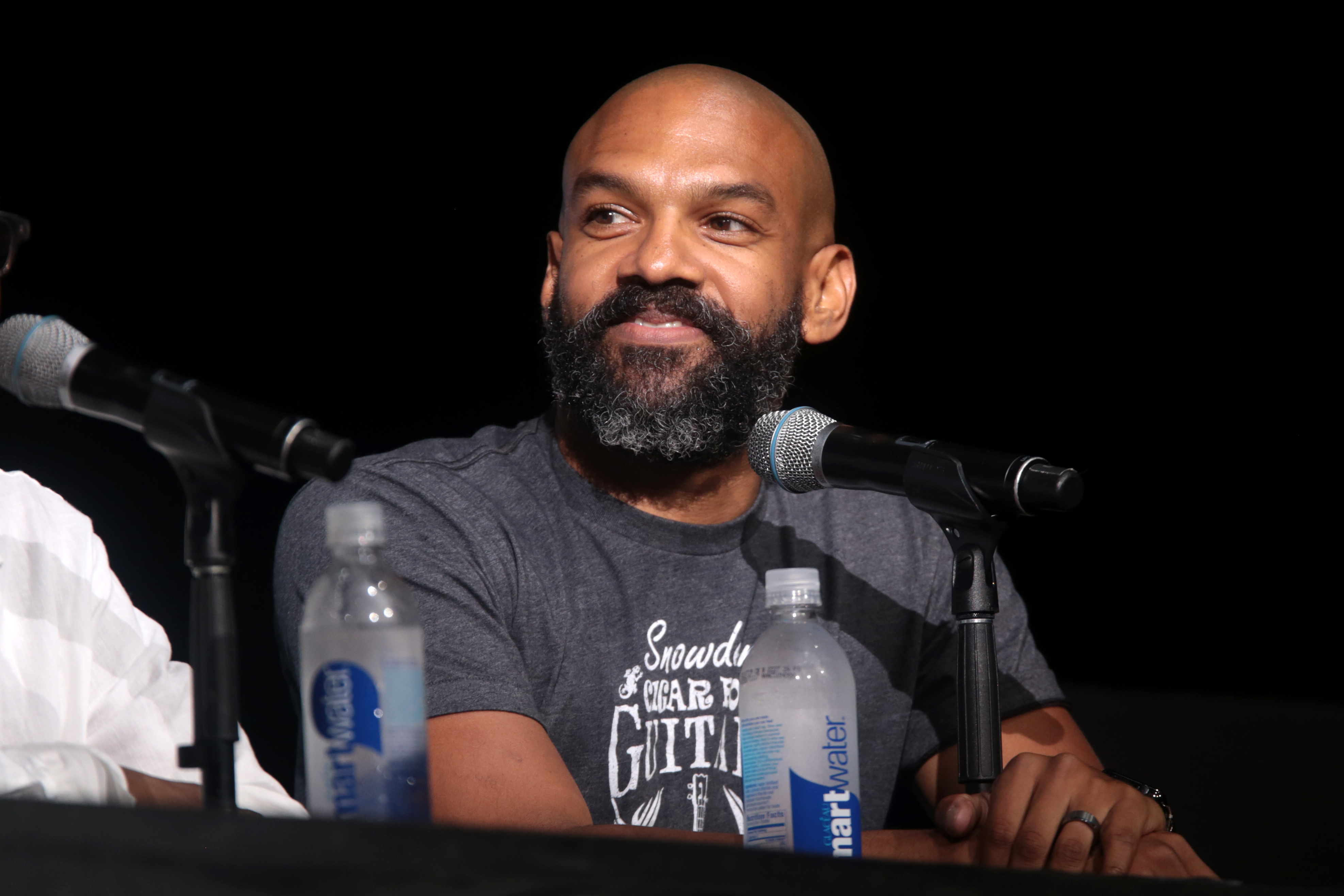 Khary Payton speaking at the 2017 San Diego Comic Con International, for "The Walking Dead", at the San Diego Convention Center in San Diego, California.